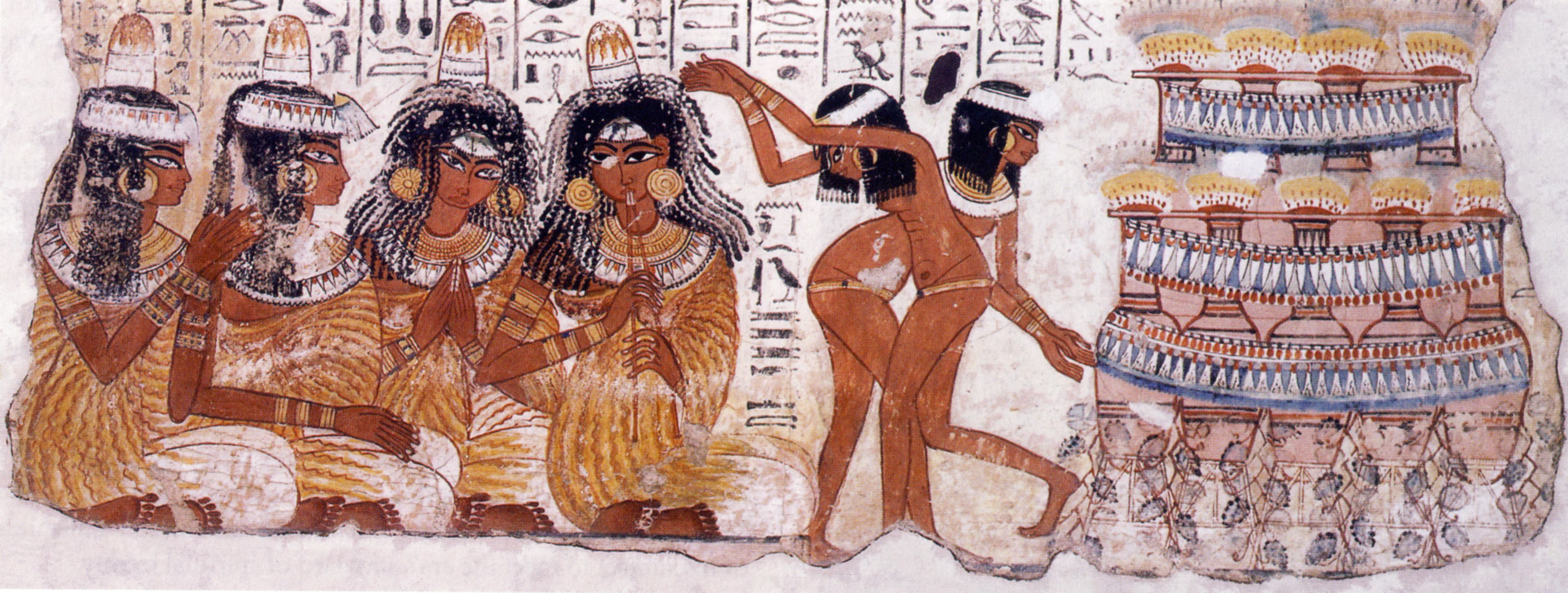 detail from a fresco from the tomb of Nebamun. Thebes, Egypt, Dynasty XVIII. In the collection of the British Museum, London.